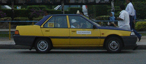 A typical taxi in Kuala Lumpur.